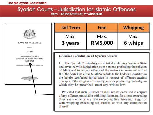 A slide showing the jurisdiction of the Malaysian State Syariah Courts for Islamic offences